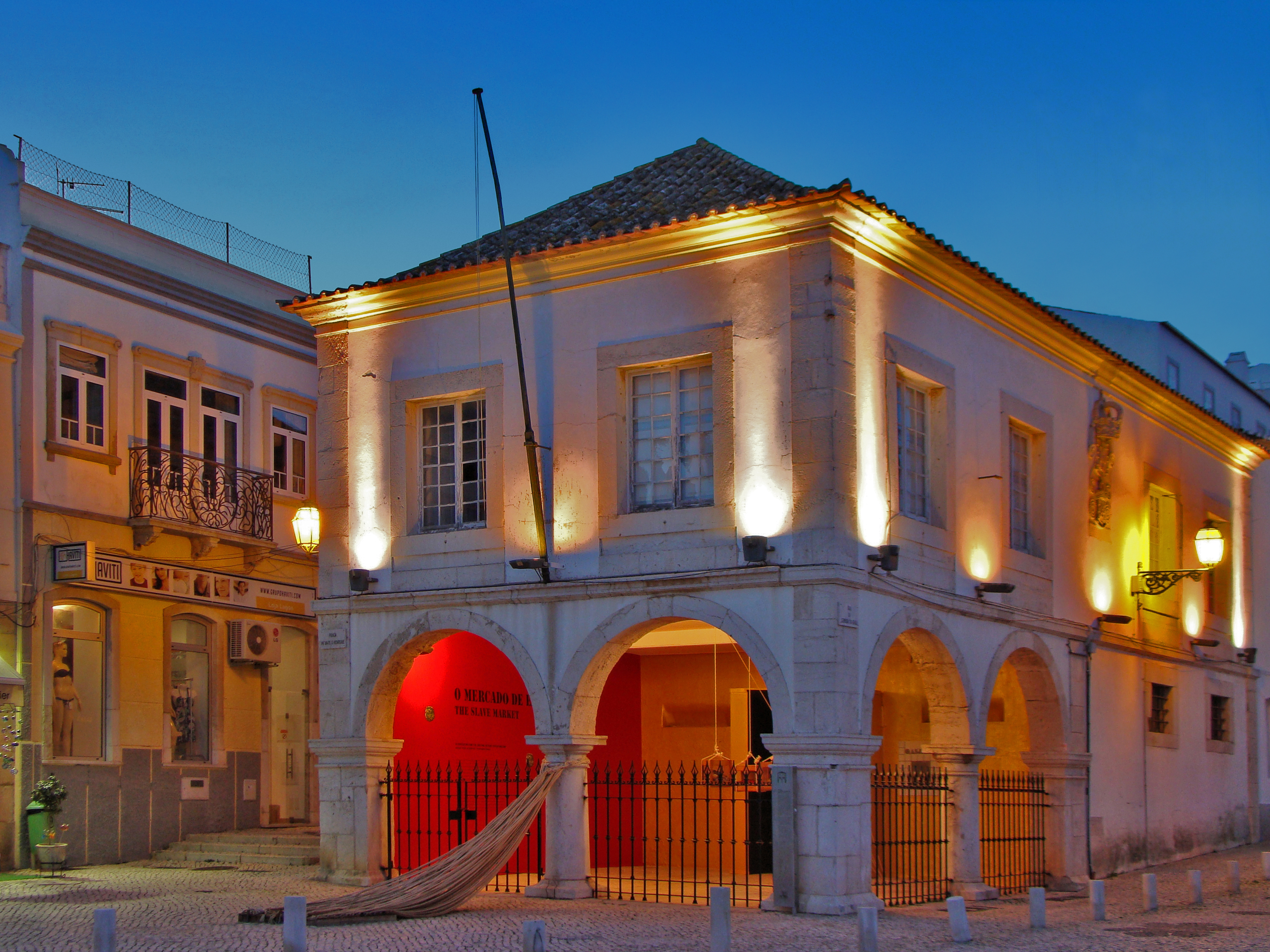 This building was once the slave market of the Portuguese city of Lagos, Algarve. The building is located on the Praça Infante Dom Henrique and is classified as a monument of public interest. It was built in 1691, although trade flourished with slaves from Africa since the mid fifteenth century and from here slaves were shipped throughout Europe at great profit to the Portuguese monarchy and merchants of lagos.